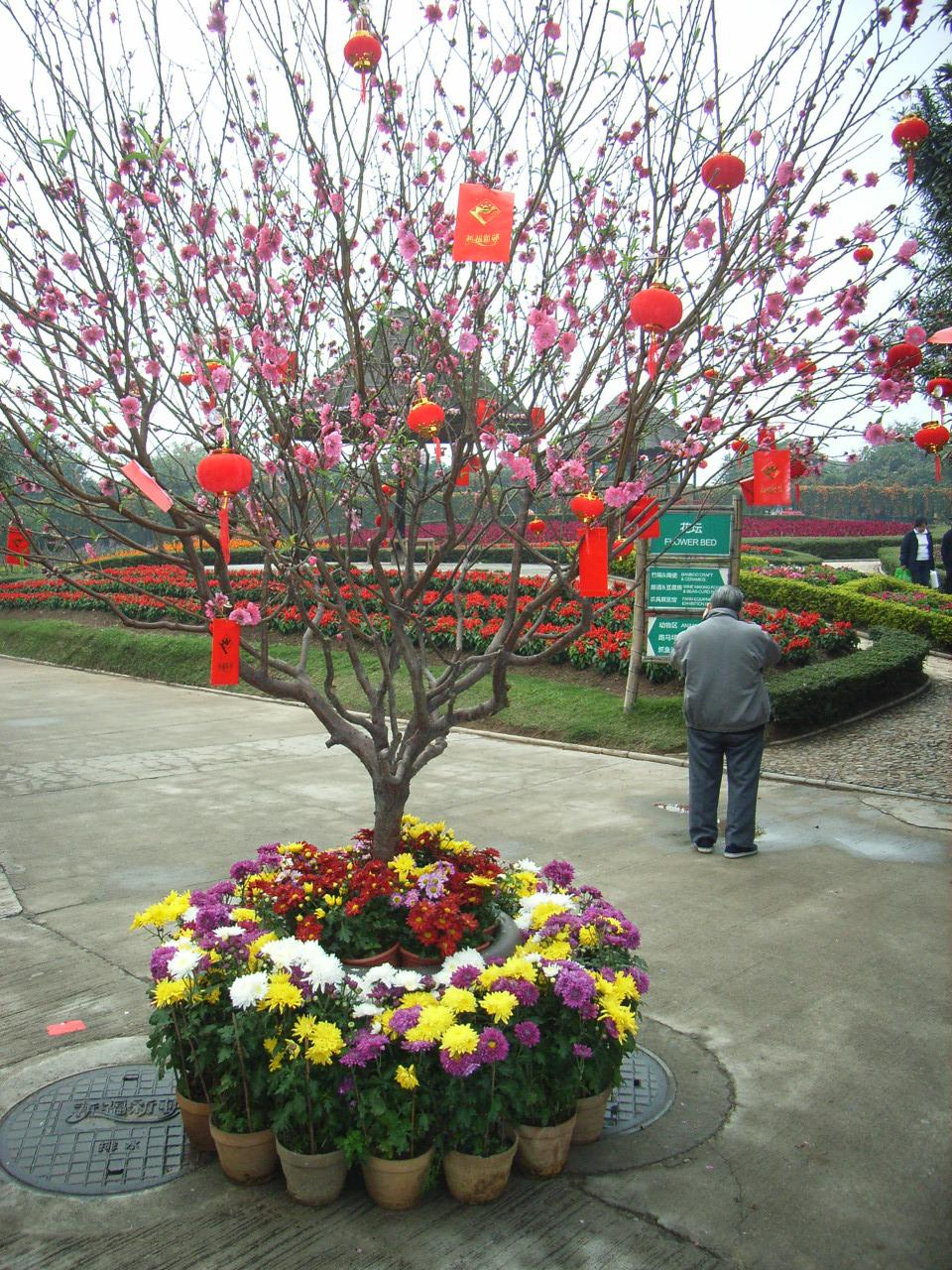 廣州番禺zh:祈福新邨農莊